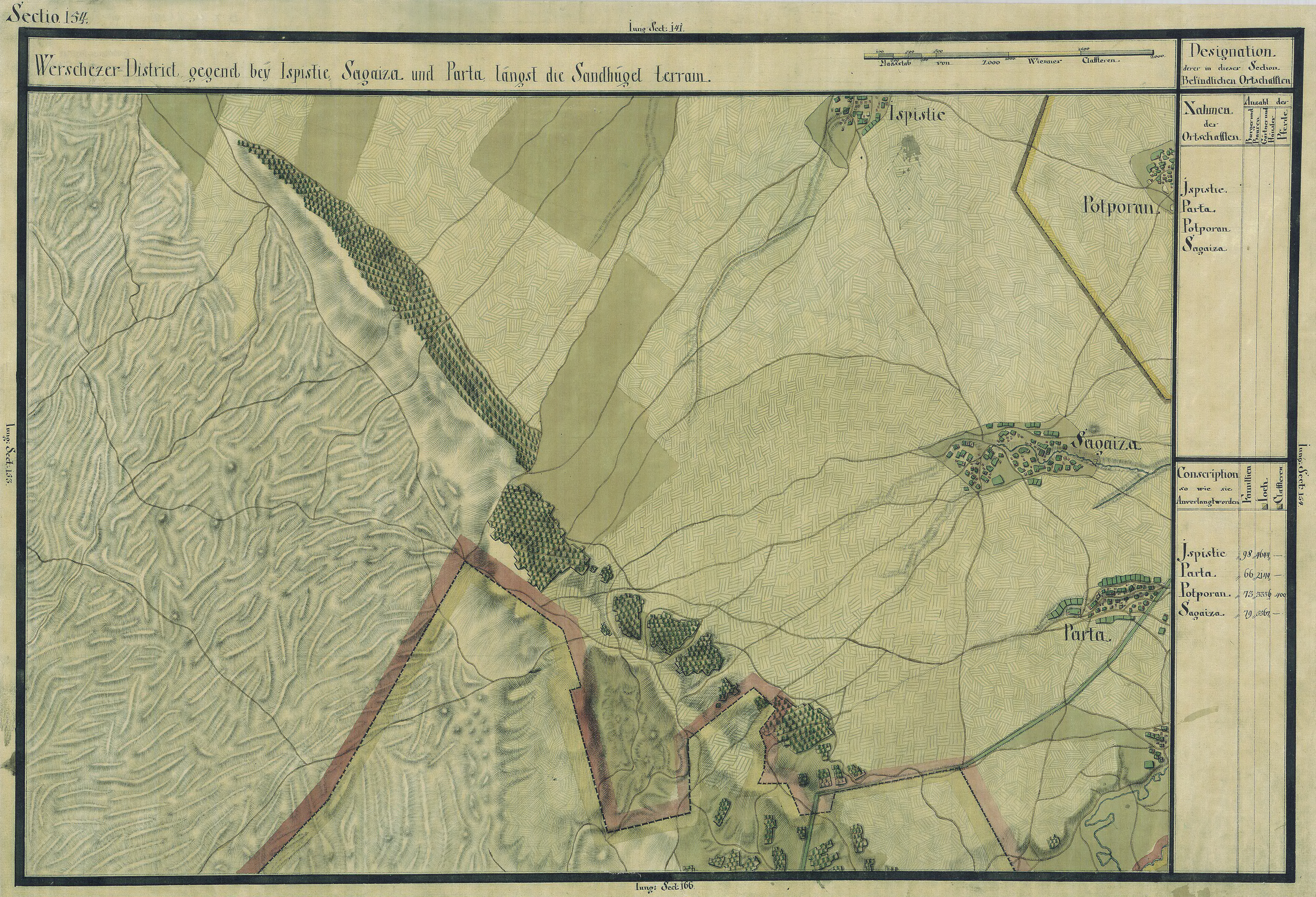 The Banat region in the cadastral maps: Josephinische Landesaufnahme, 1769-72. Josephinische Landaufnahme pg154